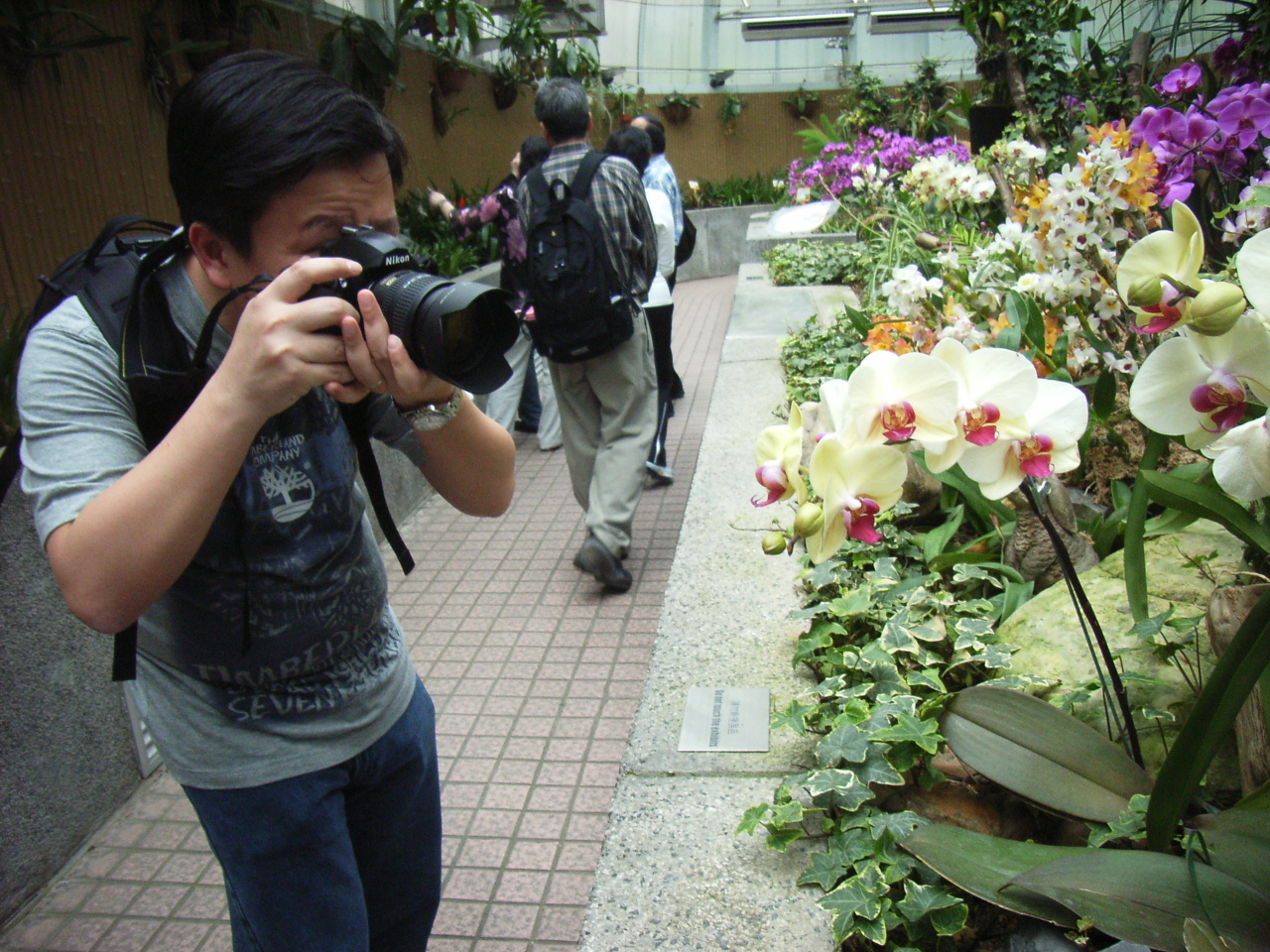 香港動植物公園 Hong Kong Zoological and Botanical Gardens NBG626